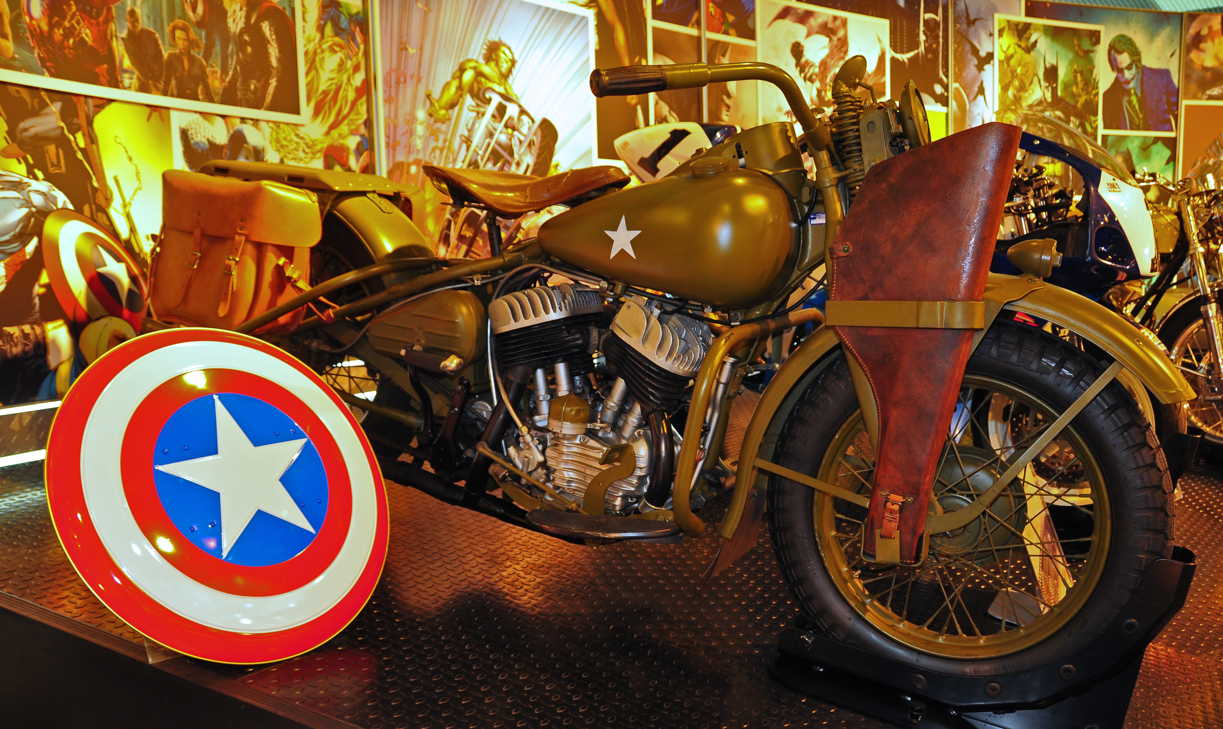 Captain America